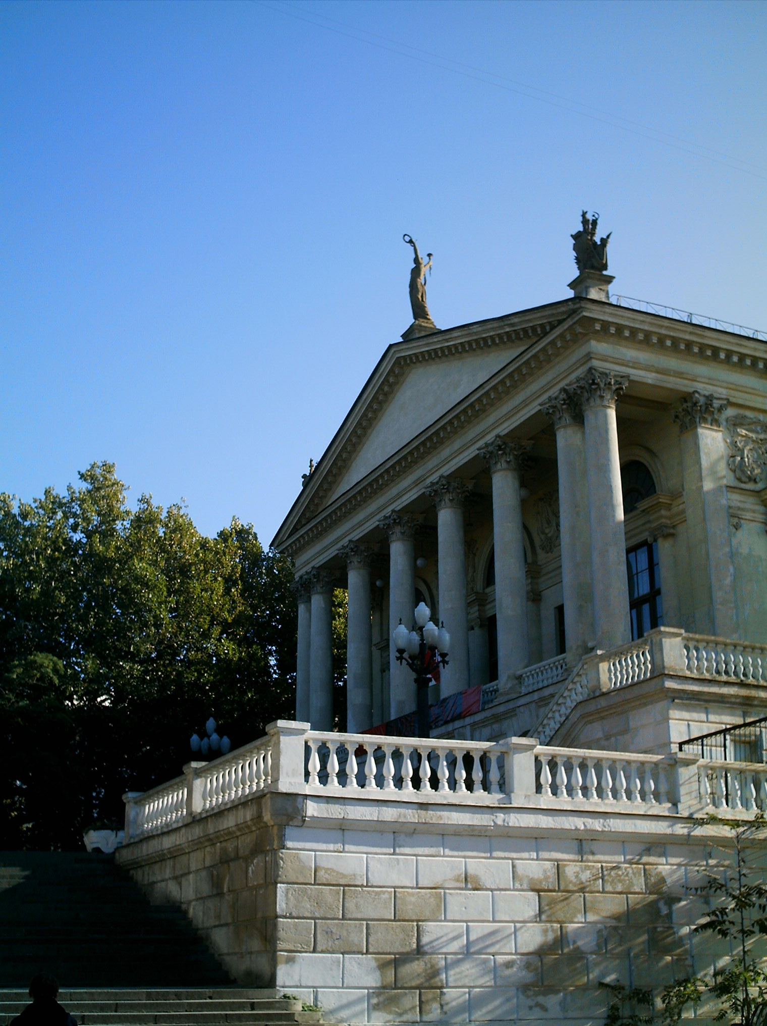 Theater Lunacharsky in Sebastopol